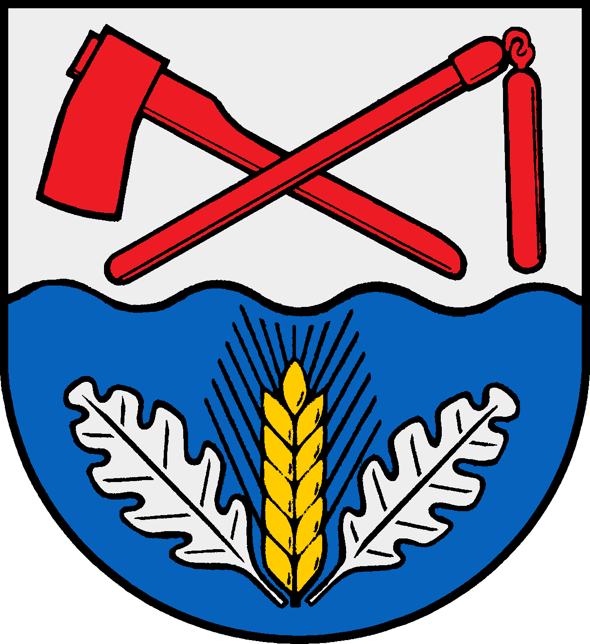 Coat of arms of the municipality Dannau in Schleswig-Holstein, Germany.